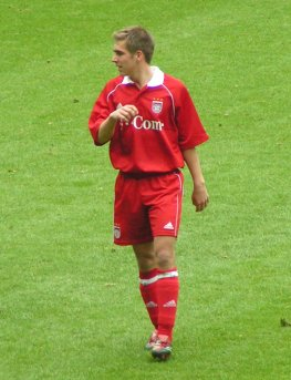 Philipp Lahm while game against Arminia Bielefeld